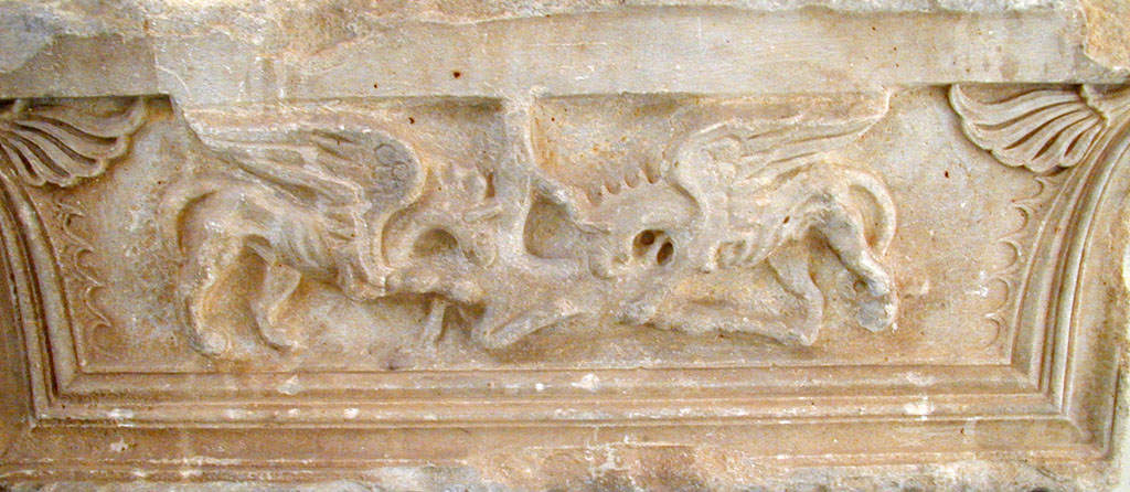 Architectural decor from the Propylon of Ptolemy II in Samothraki. Photograph taken by Marsyas 16:51, 9 Apr 2005 (UTC).